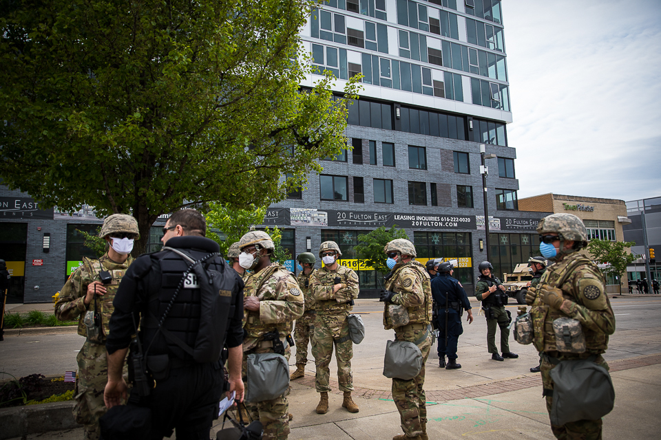 Military Police from the Michigan National Guard assisted the City of Grand Rapids on June 1, 2020, by enduring peace during a protest downtown. Michigan National Guard members will provide support to local civil authorities for as long as requested as a peaceful presence for the safety of Michigan communities. (Michigan National Guard photo by 2nd Lt. Ashley Goodwin)